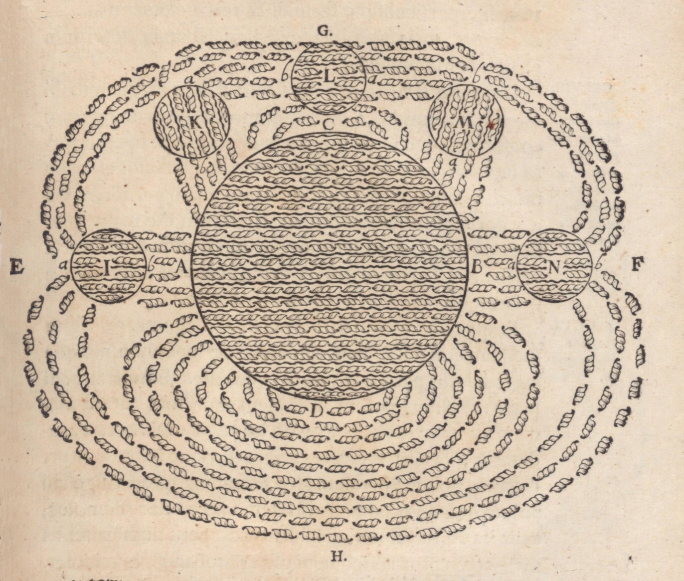 Drawing of a magnetic field by French philosopher René Descartes, from his Principia Philosophiae, 1644. This was one of the first drawings of the concept of a magnetic field. It shows the magnetic field of the Earth (D) attracting several round lodestones (I, K, L, M, N) and illustrates his theory of magnetism. Descartes proposed that magnetic attraction was caused by the circulation of tiny helical particles, "threaded parts" (shown), which circulated through parallel threaded pores in magnets, in through the South pole (A), out through the North pole (B), and then through the space around the magnet (G, H) back to the South pole. Oppositely threaded particles circulated in the opposite direction. When the "threaded parts" came near a lodestone or piece of iron, they passed through its pores, causing magnetic force. Alterations to image: cropped, and cloned out intruding text around edges of drawing